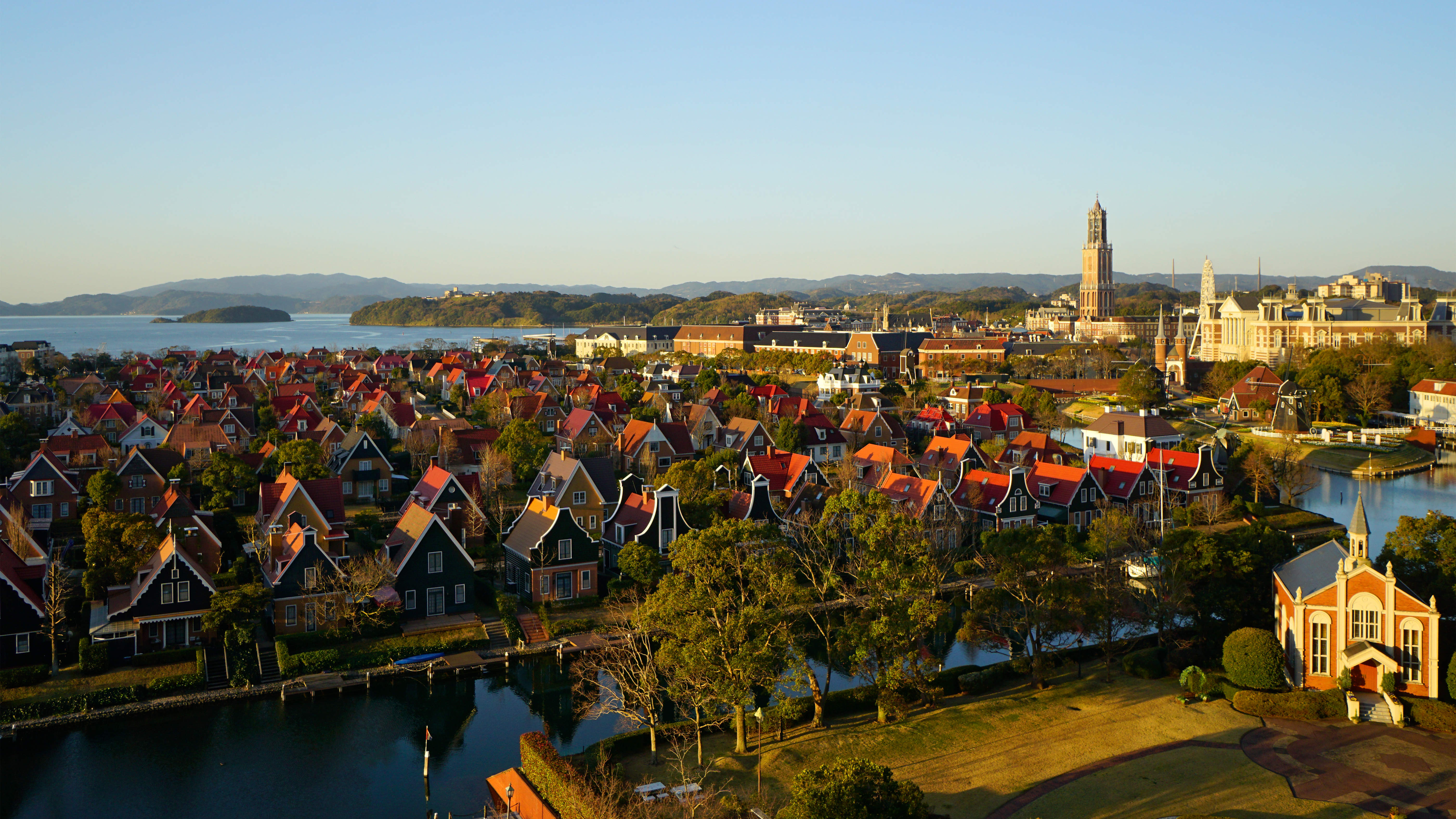 Huis Ten Bosch Wassenaar in Sasebo, Nagasaki prefecture, Japan.